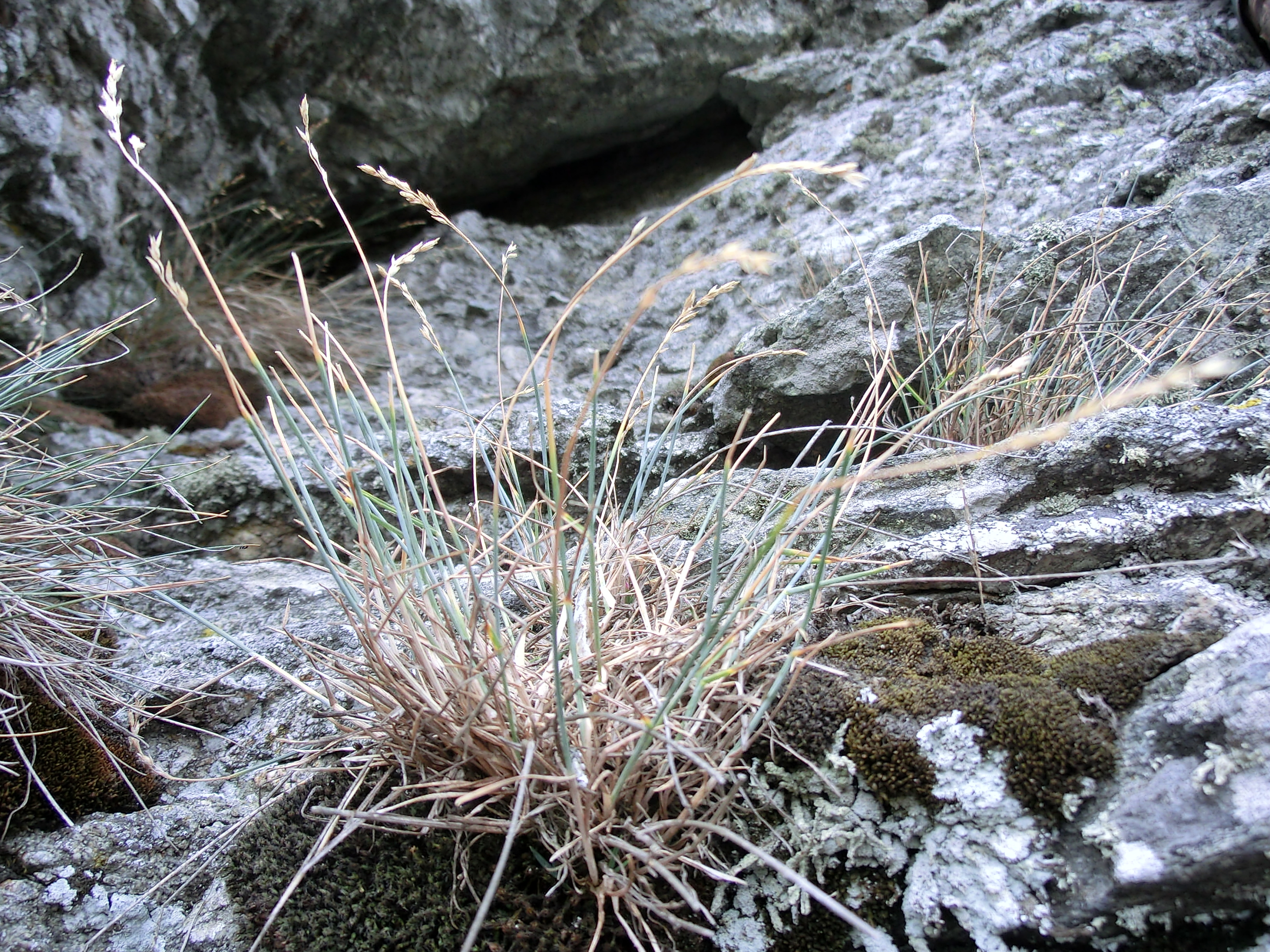 Poa riphaea